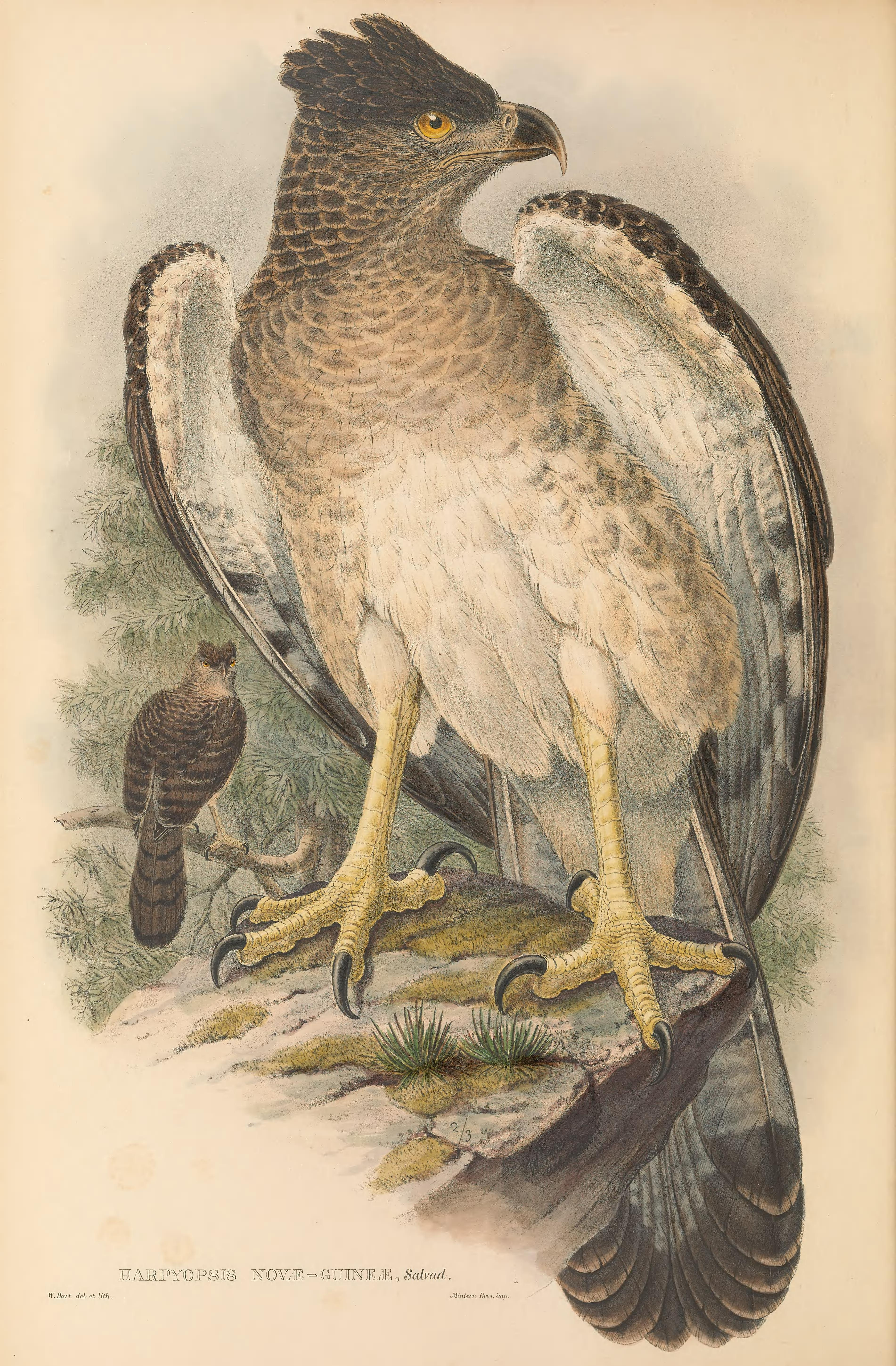 Harpyopsis novaeguineae - The birds of New Guinea and the adjacent Papuan islands : including many new species recently discovered in Australia. v.1 (Plate III).